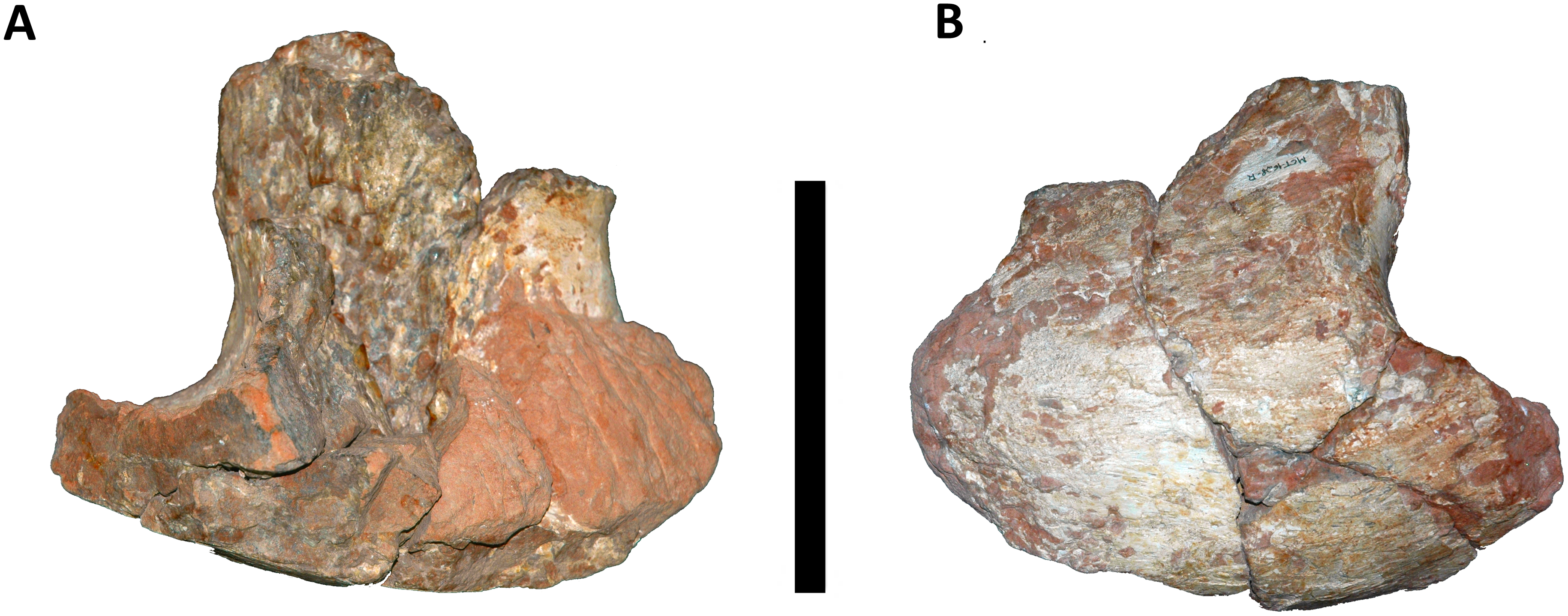 Cervical rib of Austroposeidon magnificus gen. et sp. nov. (A) Internal and (B) external views. Scale bar: 100mm.